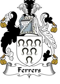 Ferrers Family Crest